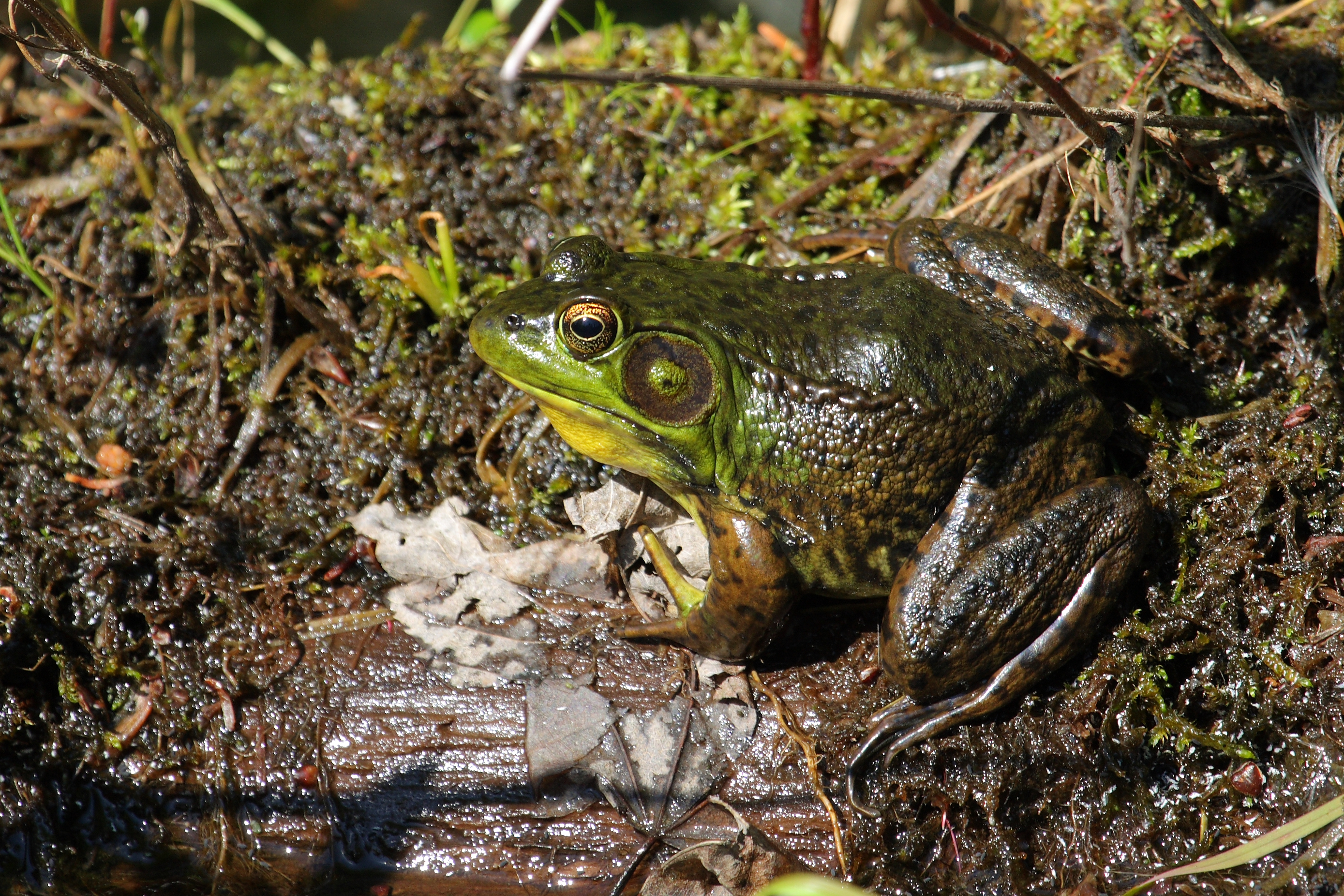 Green frog (Rana clamitans melanota), male, Réserve naturelle des Marais-du-Nord, Quebec, Canada.